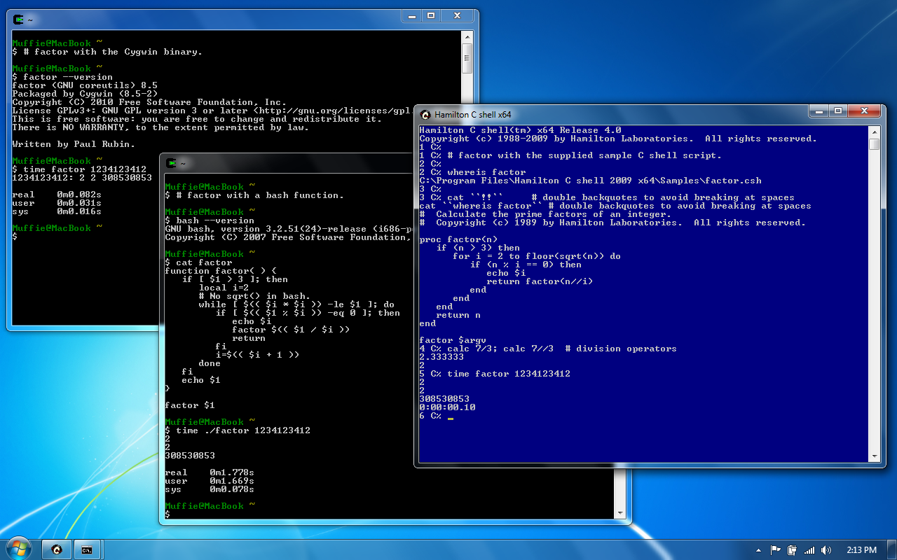 Hamilton C shell and Cygwin bash recursion under Windows 7. Shows the contrasting language styles and relative performance of Hamilton C shell and Cygwin bash factoring a number using recursive shell scripts. The elapsed time using the compiled Cygwin binary to do the factoring is also shown for comparison. Timing a recursive shell procedure or function factoring a large number is a test of how fast the shell is able to evaluate simple expressions and interpret its language constructs, especially for iteration and condition-testing. Since there are no child processes being spawned and only three lines of output are generated, the time spent in system calls is quite small. In this example, the compiled Cygwin binary factored 1234123412 in 0.082 seconds. Bash required 1.778 seconds. Hamilton C shell required 0.1 seconds, making it nearly as fast as the compiled binary and roughly 18x as fast as bash. System configuration: Standard 2008 aluminum MacBook Intel Core 2 Duo @ 2.4GHz 4.0GB RAM 64-bit Windows 7 Ultimate 160GB C: partition, 60% free